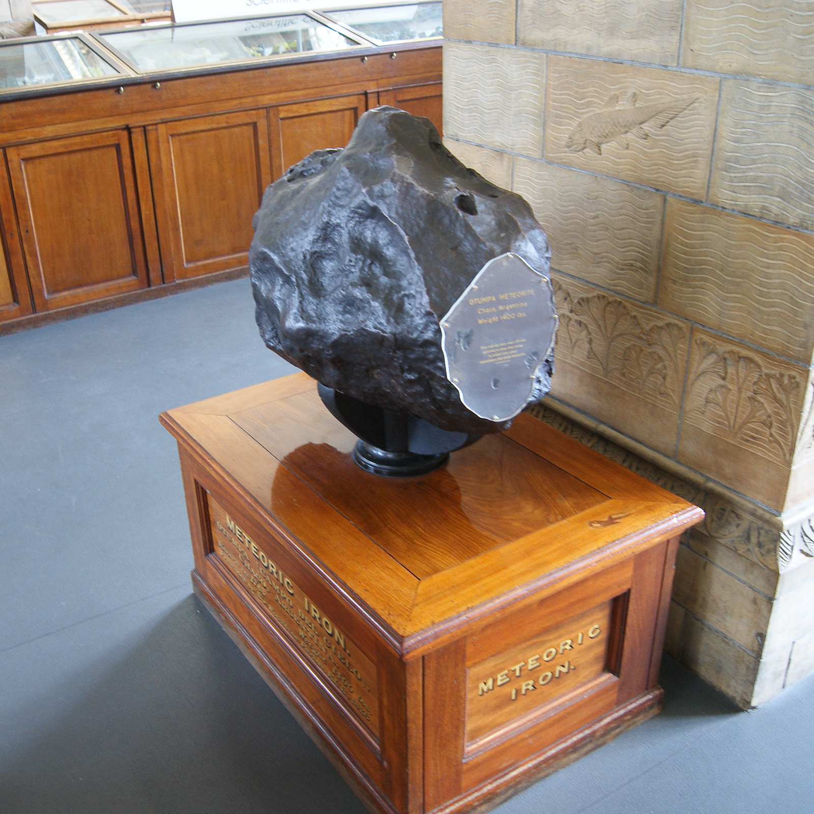 Campo del Cielo meteorite, Natural History Museum, London.